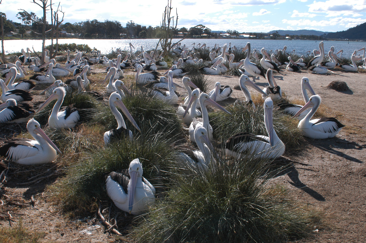 An Australian Pelican nesting colony on a sand island in Brisbane Water, Broken Bay, New South Wales, Australia.